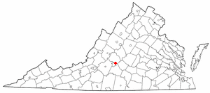 Map of Viriginia showing location of Madison Heights